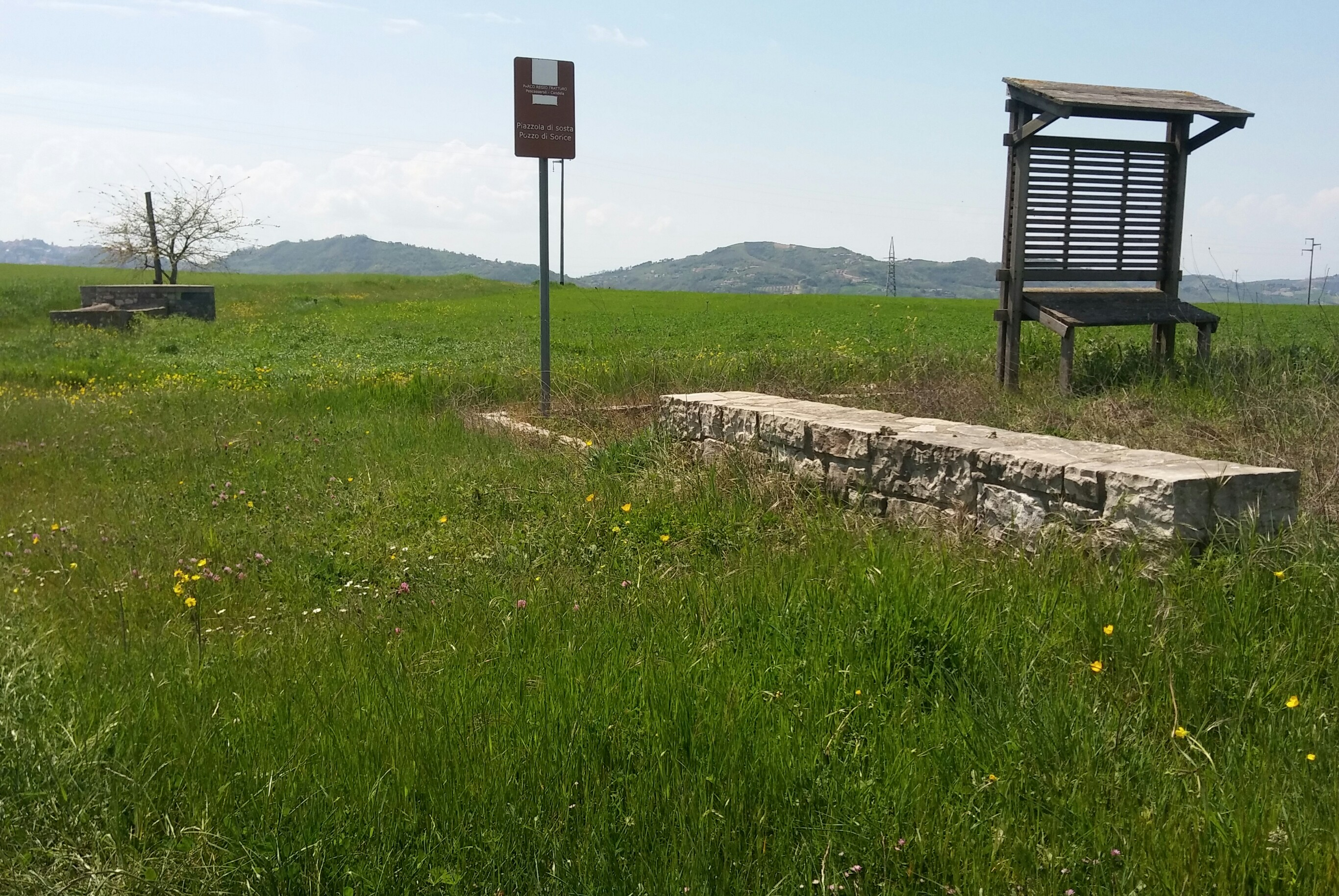 A rest area along Tratturo near Ariano Irpino, Italy